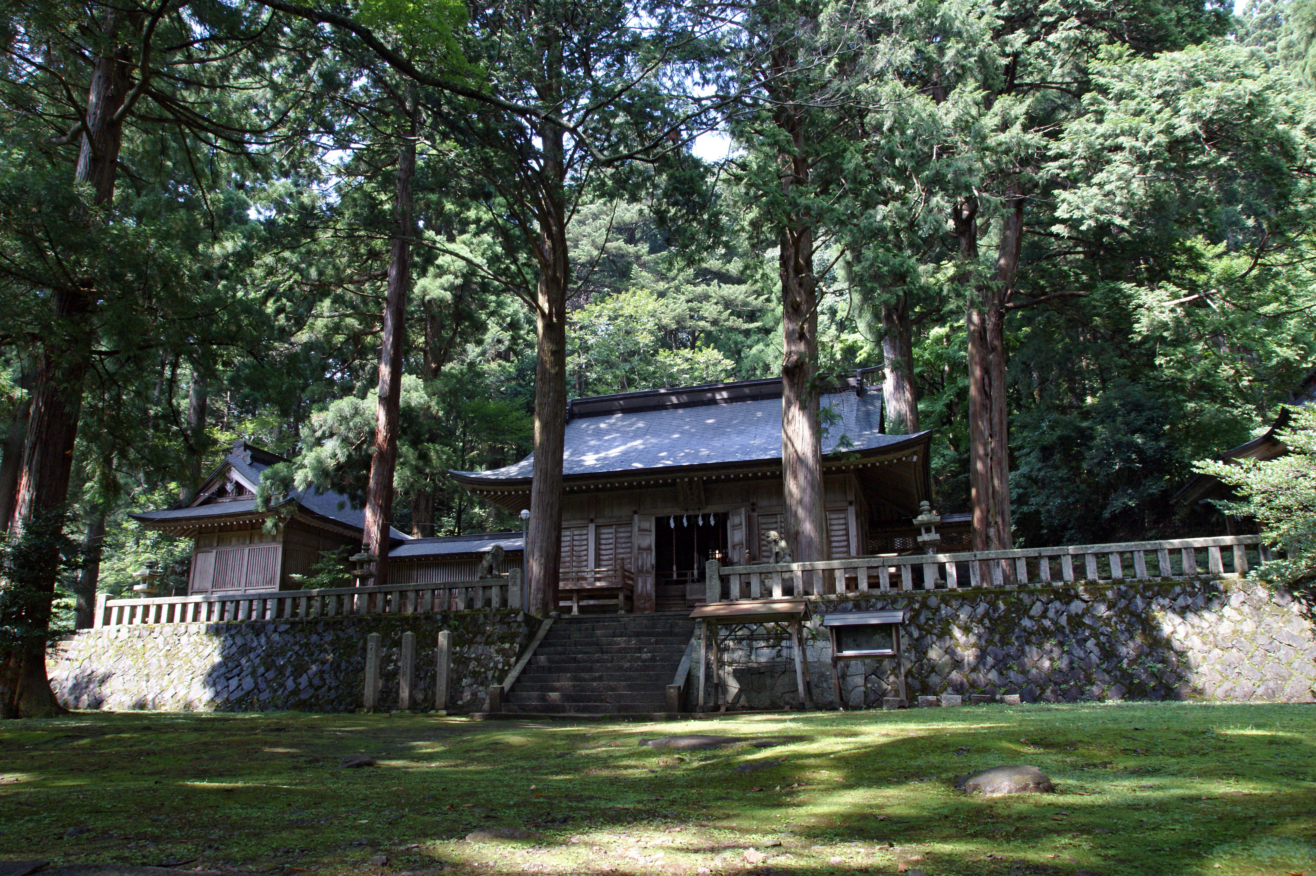 Wakasa-jinja in Wakasa, Tottori prefecture, Japan